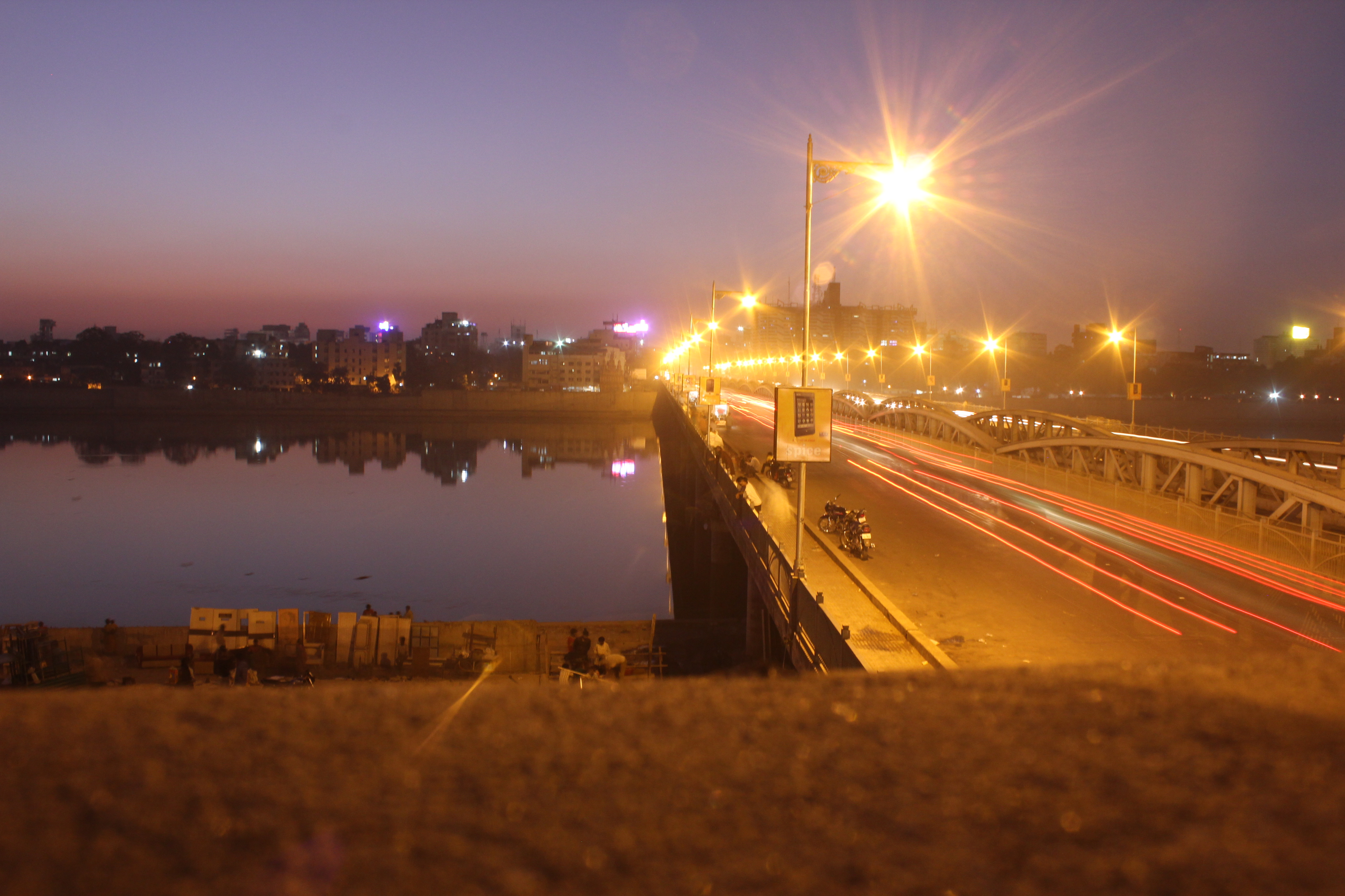 Sunset from ellis bridge